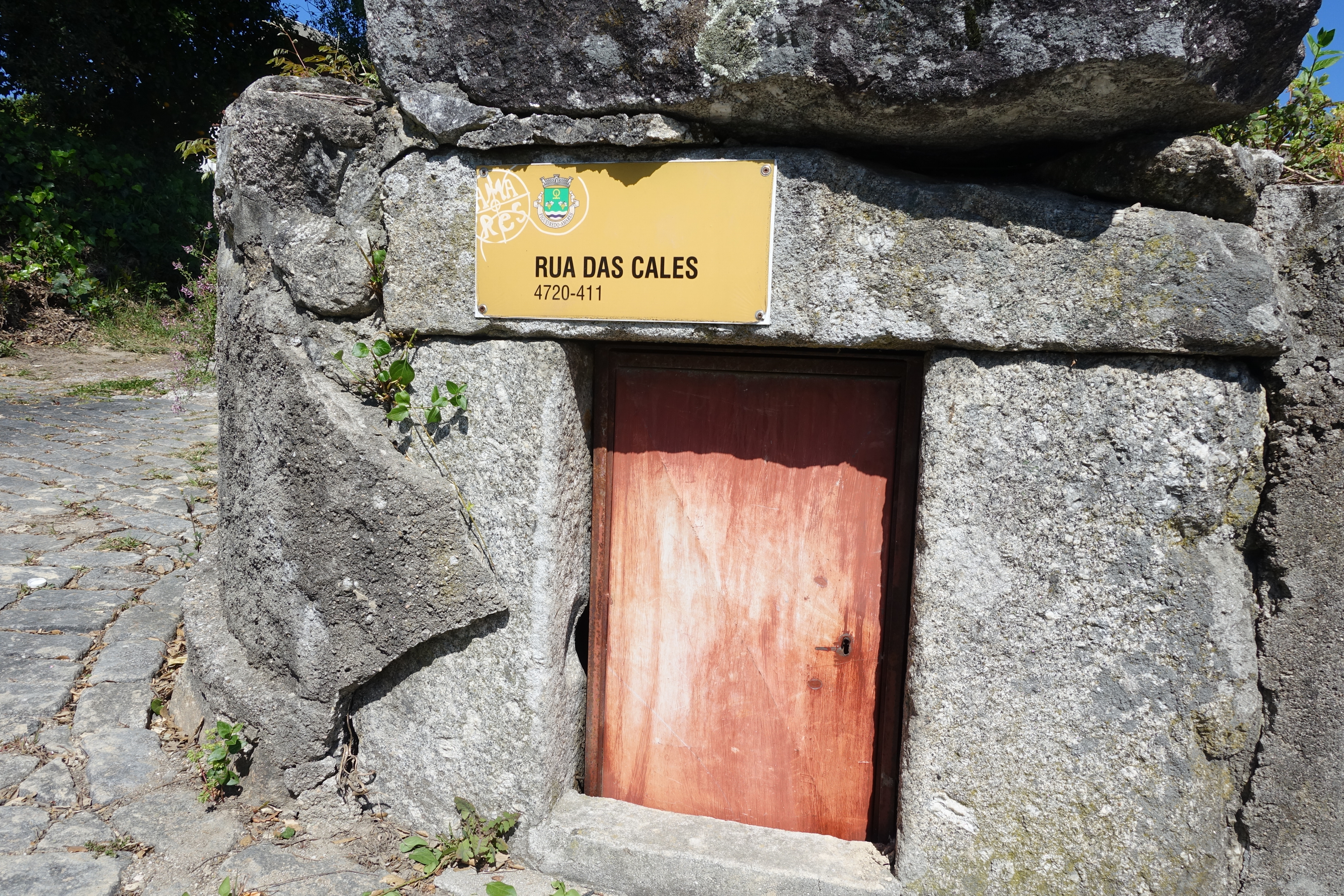 Door fo the cales aquedut Amares, Portugal.